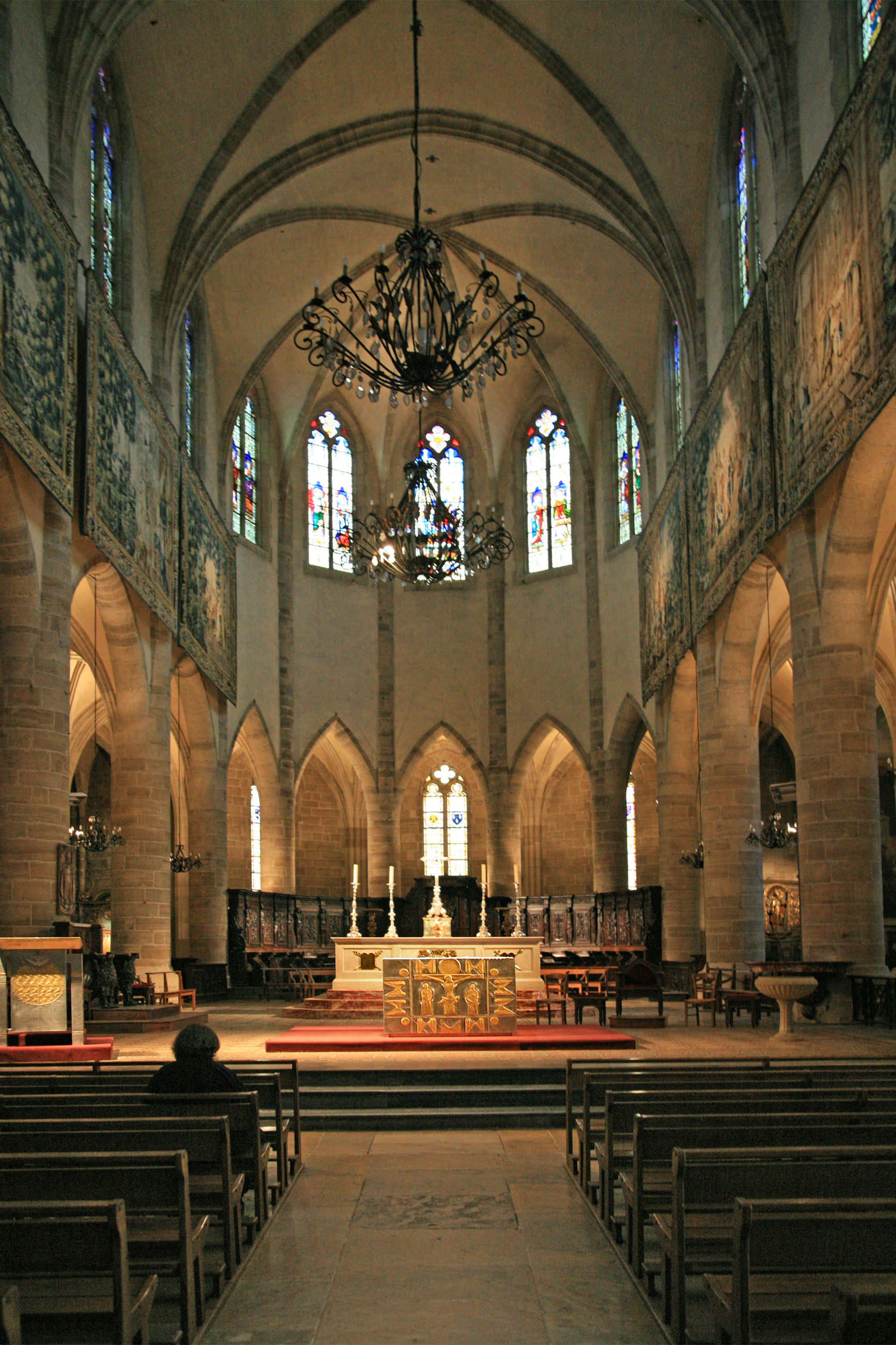 Gothic cathredal Notre-Dame-et-Saint-Privat in Mende, a city with about 12,000 inhabitants in the Département Lozère, France.